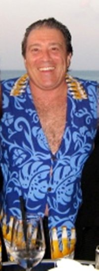 Maurice Paquin